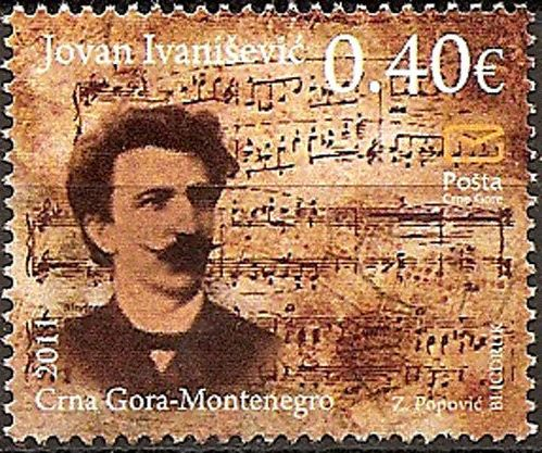 Composer of Montenegro Jovan Ivanisevic (?-1889)